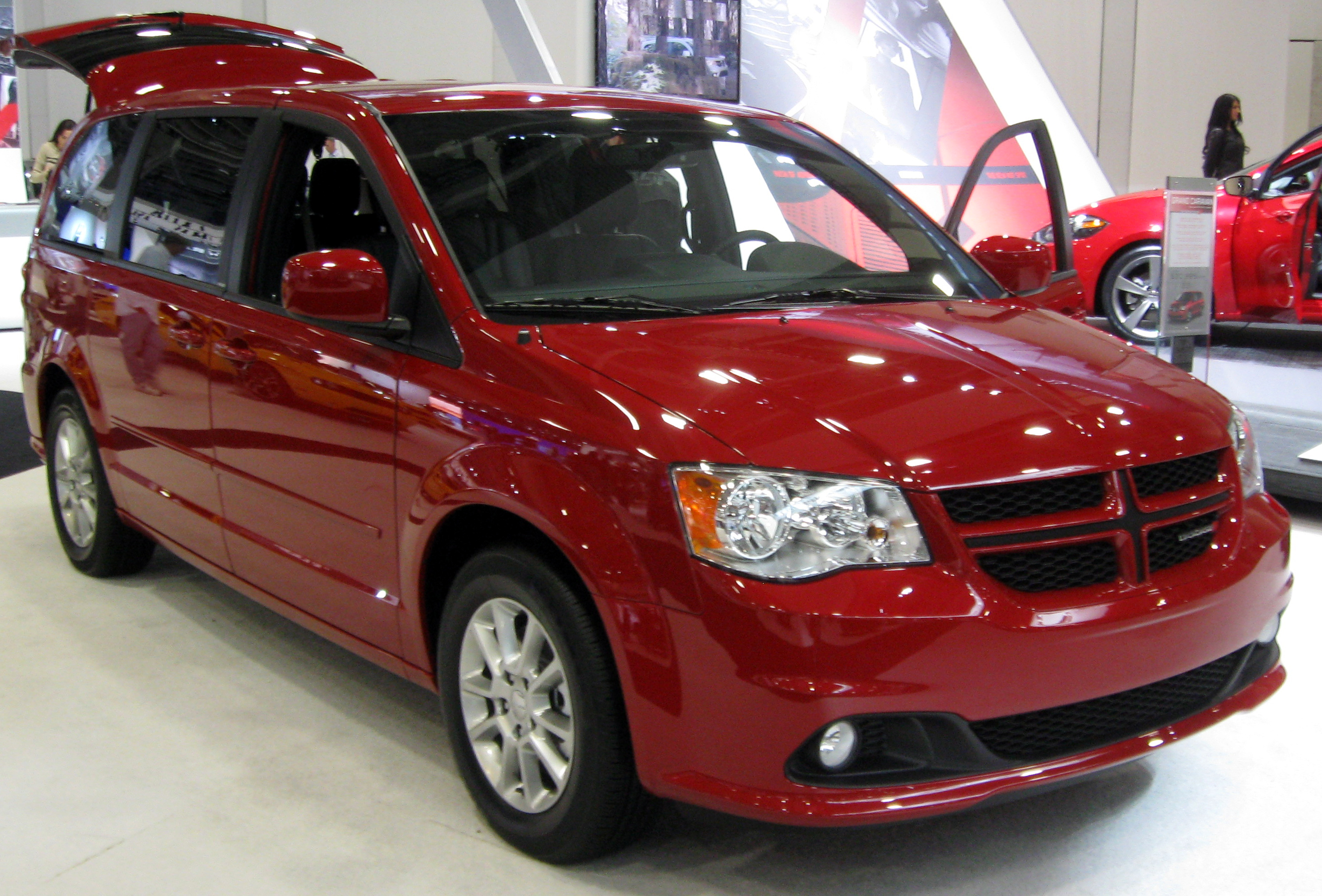 2012 Dodge Grand Caravan R/T photographed in Washington, D.C., USA.